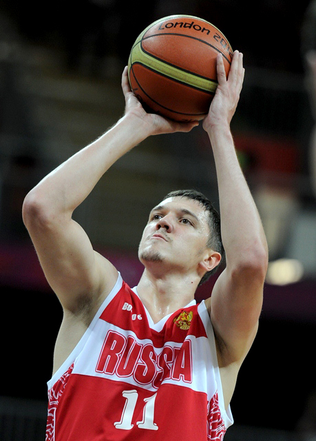 Russian bball player